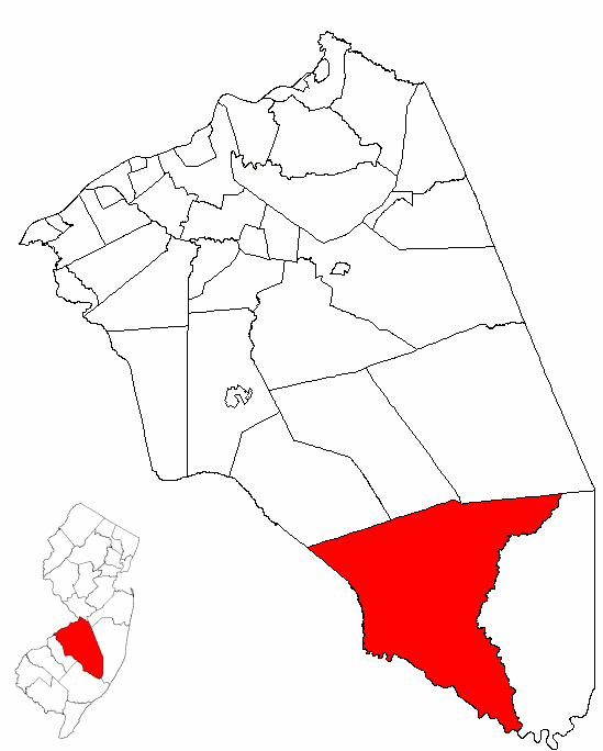 Map of Burlington County highlighting Washington Township